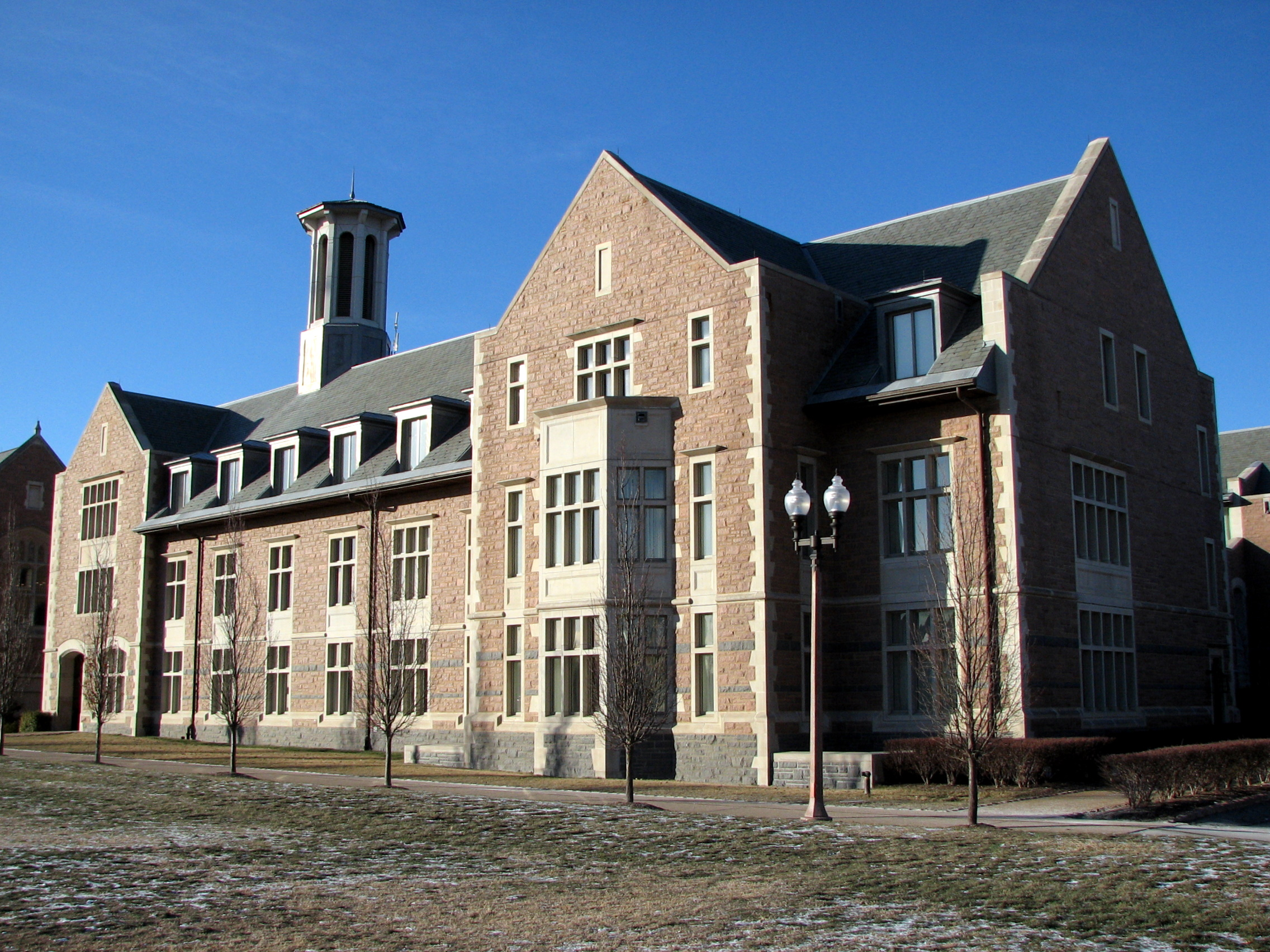 Own Work. Taken on Feb. 3, 2007 MIN, Baili 22:28, 3 February 2007 (UTC) category:Washington University in St. Louis